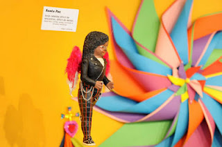 Cartonería doll from the Miss Lupita project on display at the Museu do Brinquedo in Portugal